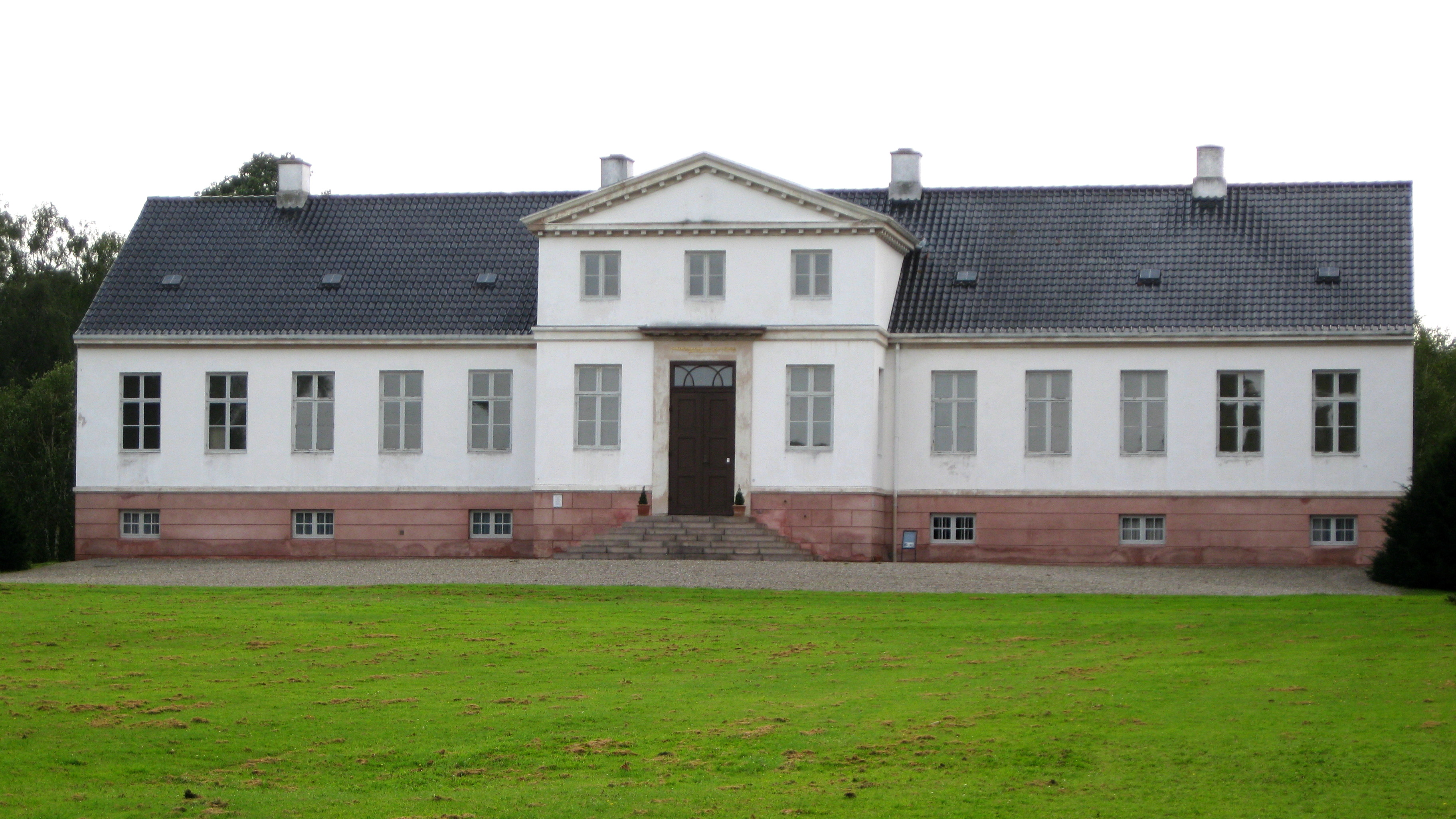 The estate "Pederstrup" (Reventlow Museum) located on the island Lolland in east Denmark.